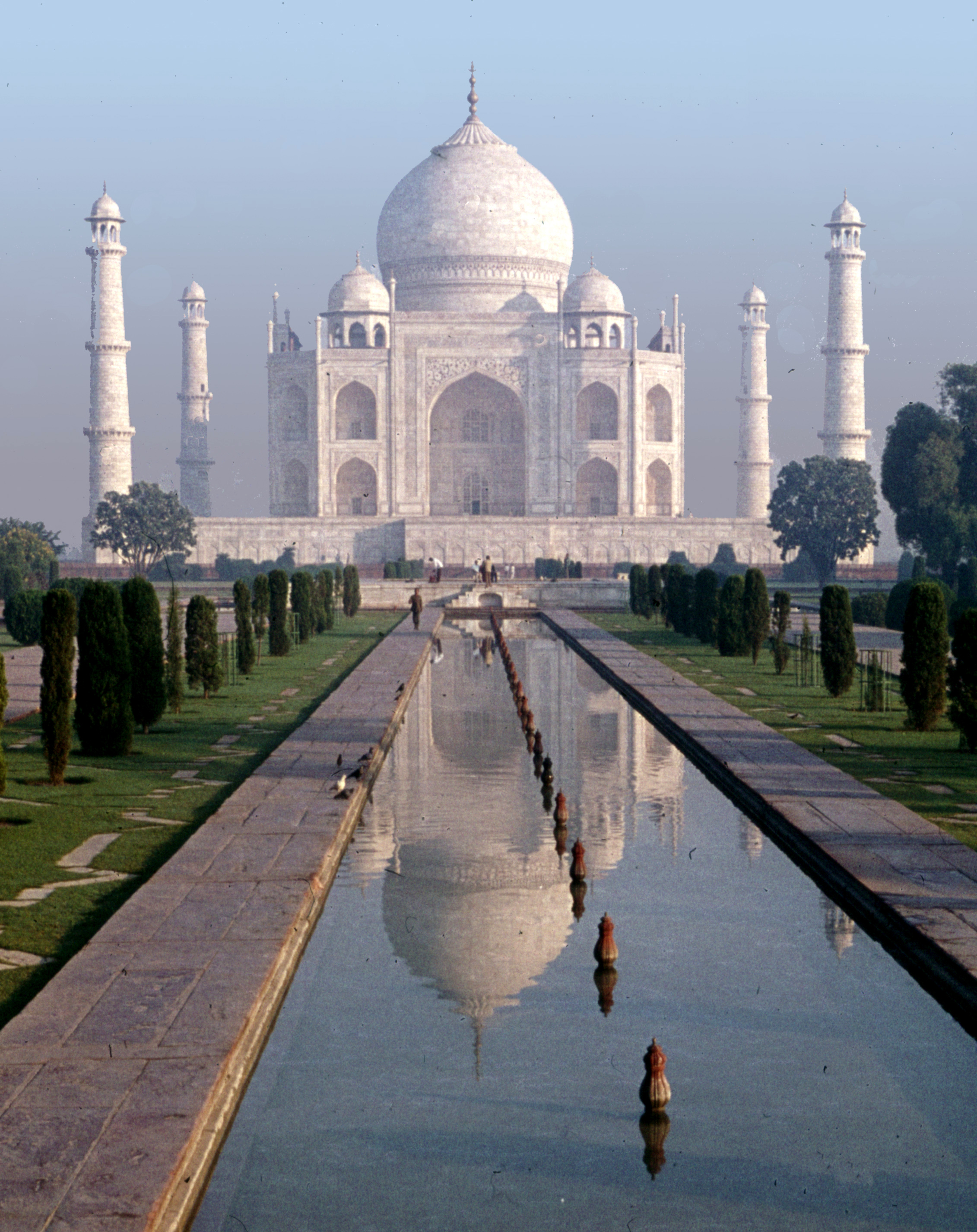 Agra in India 1976